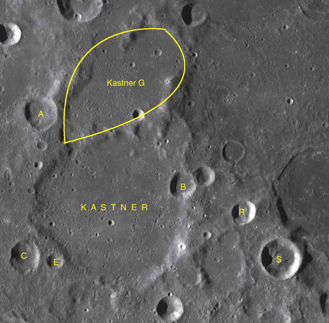 Part of the chart LAC-81 used for the presentation